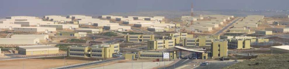 An overview of Nachshonim IDF base